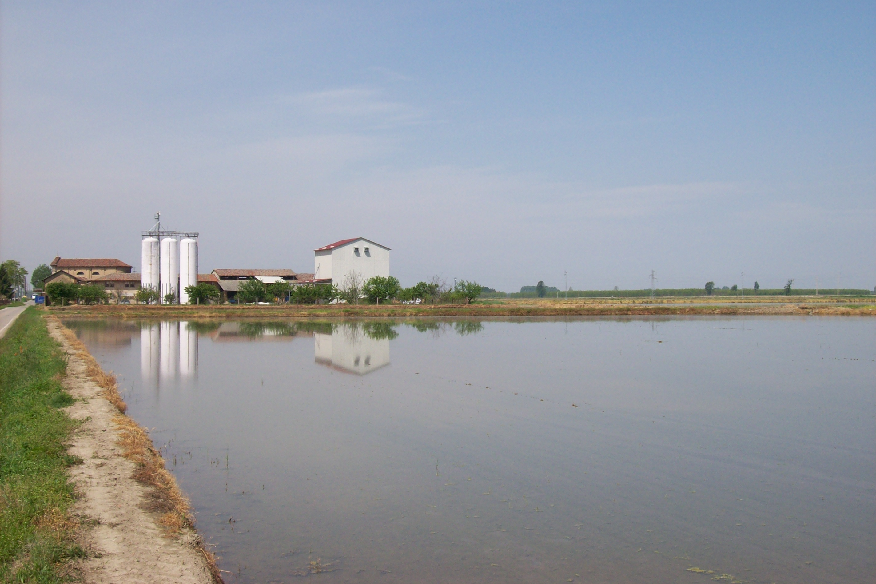 Paddy field in Olevano Lomellina, province of Pavia, Italy